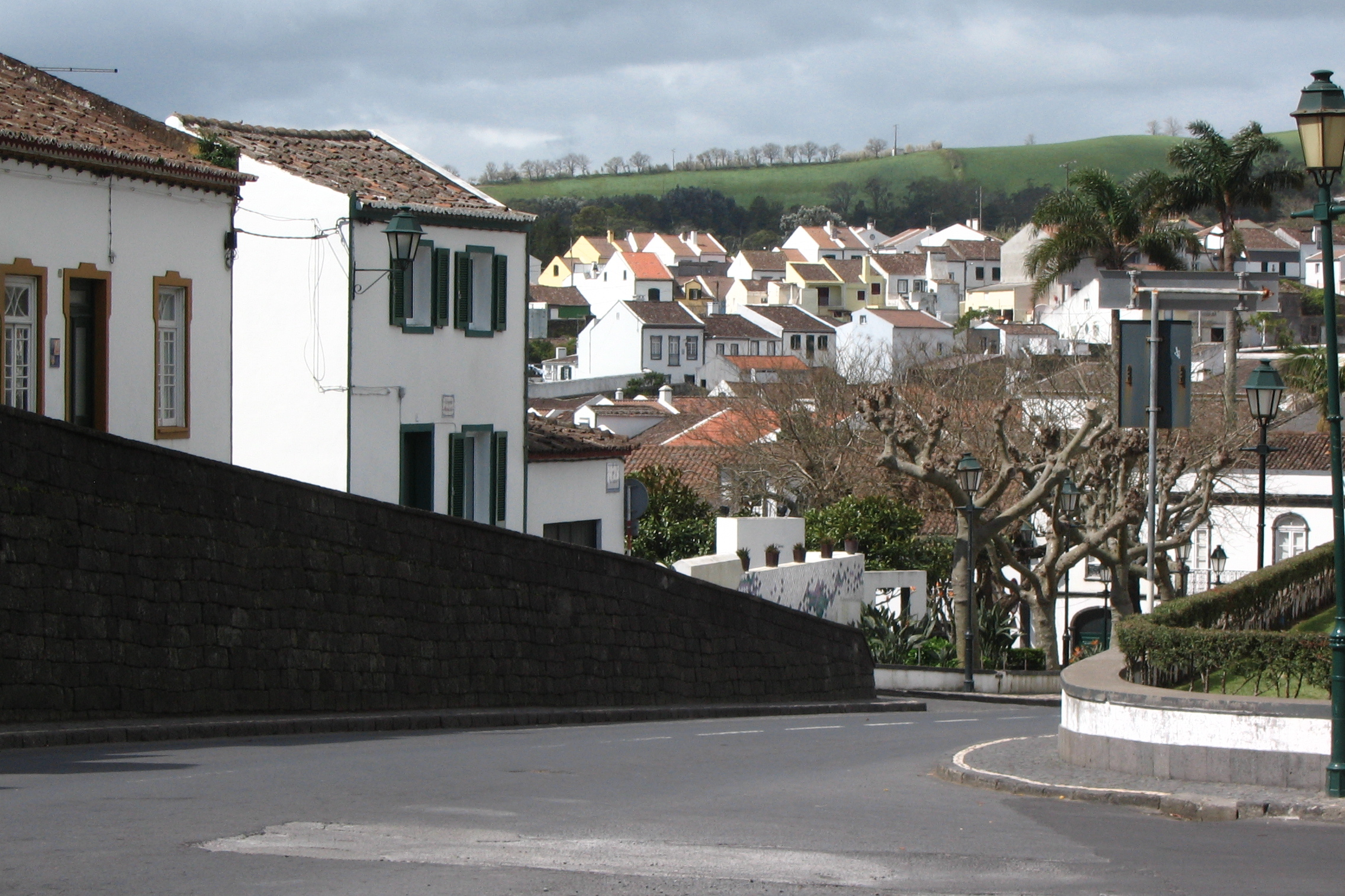 A view from the village of Áqua de Pau, a civil parish seat of Água de Pau (located west of the city of Ponta Delgada), municipality of Lagoa (Azores), Portugal